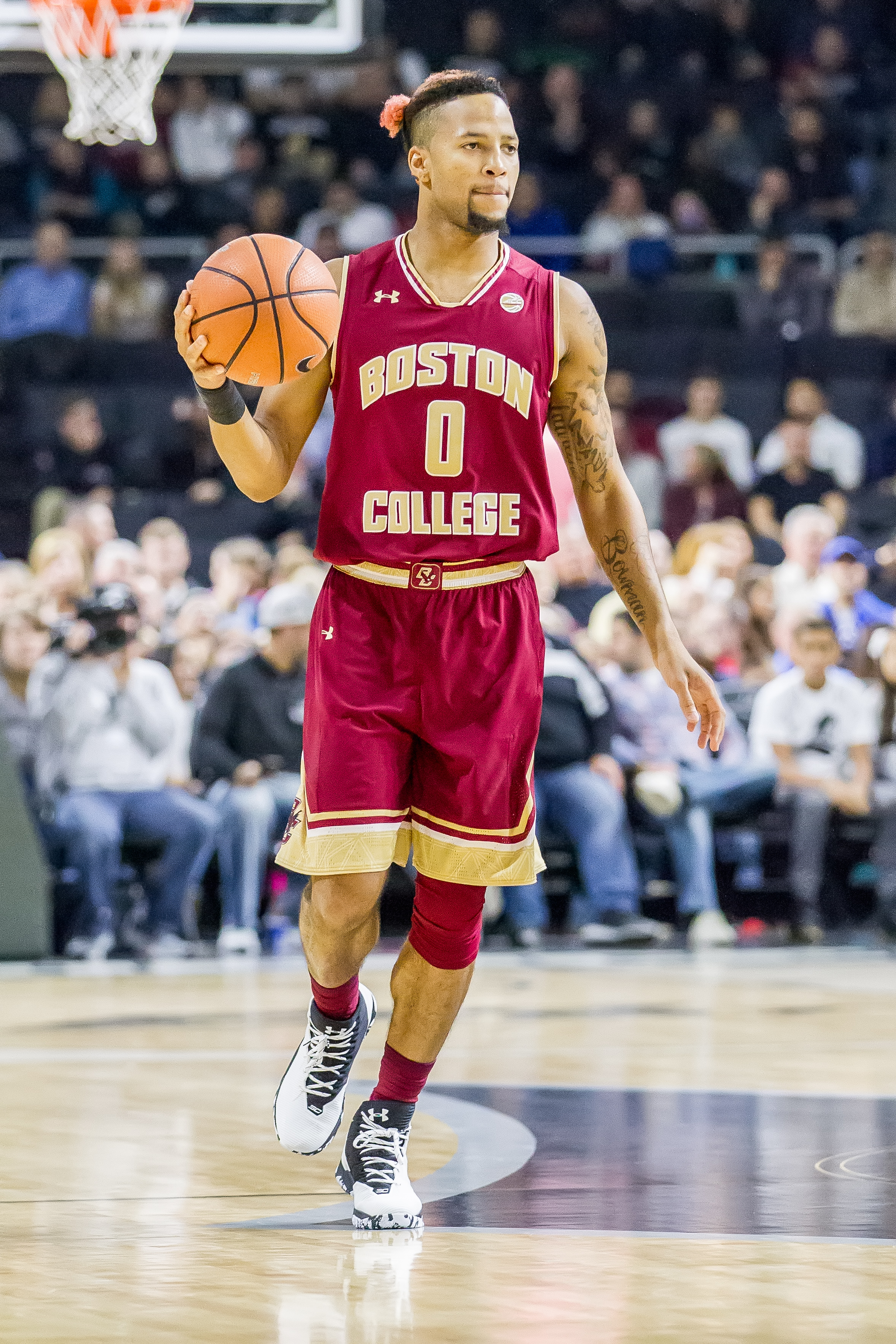 Ky Bowman playing for Boston College against Providence in 2017 (Photo by Ken Jancef)